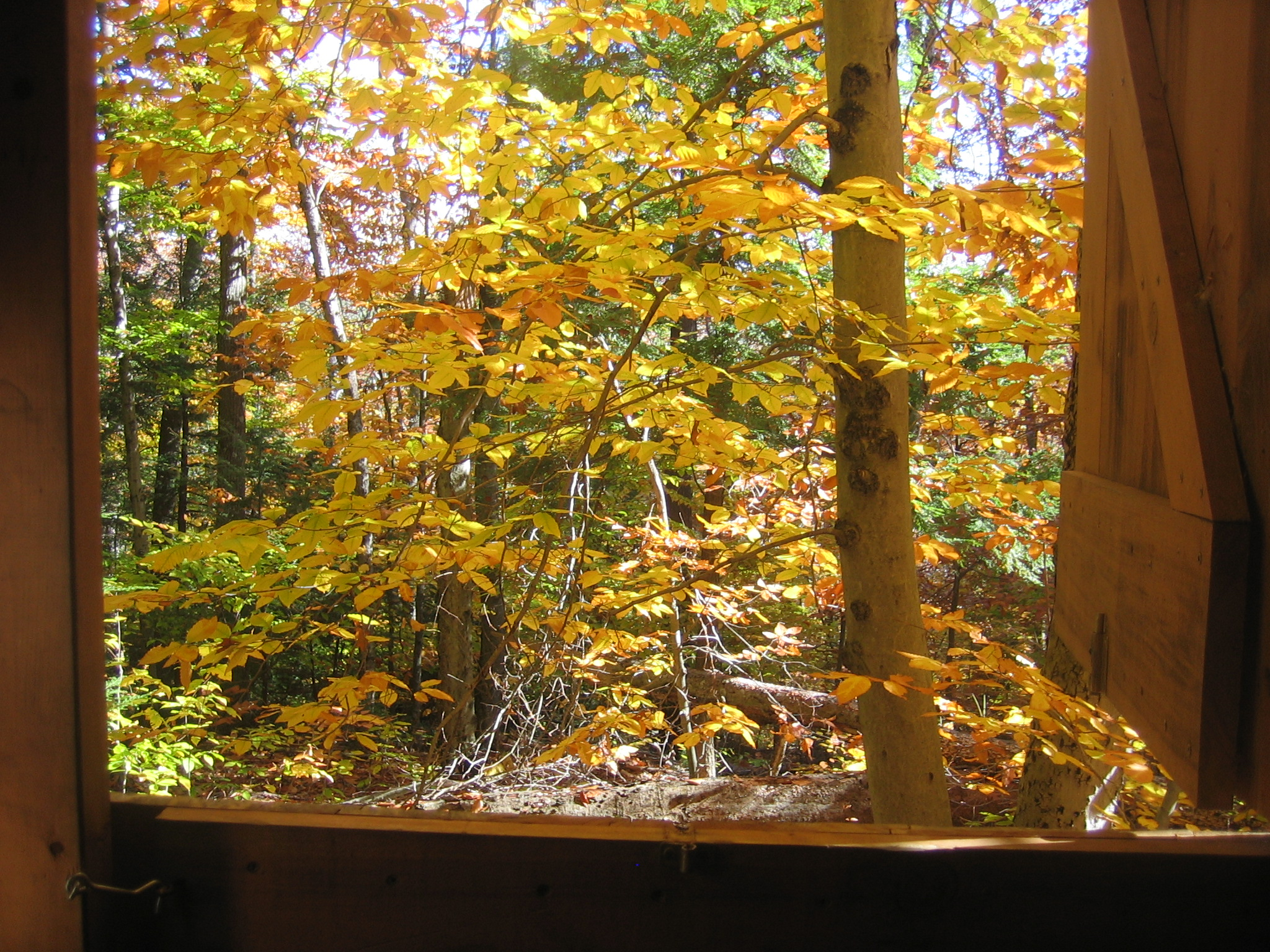 View from the dutch door of the outhouse at the Velvet Rocks shelter on the Appalachian trail in New Hampshire, displaying fall colors.